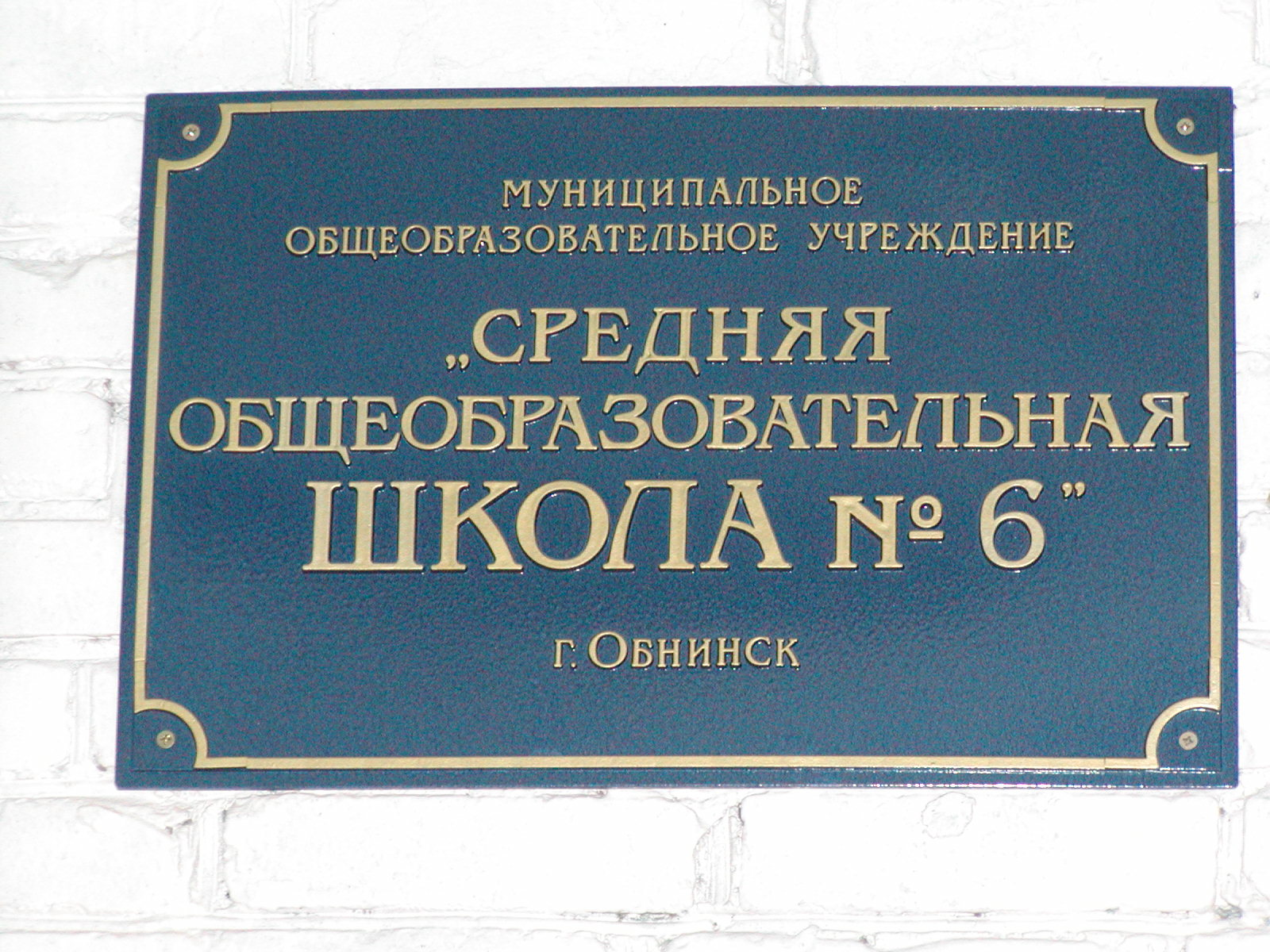 Obninsk lycée's signboard in autumn 2011.